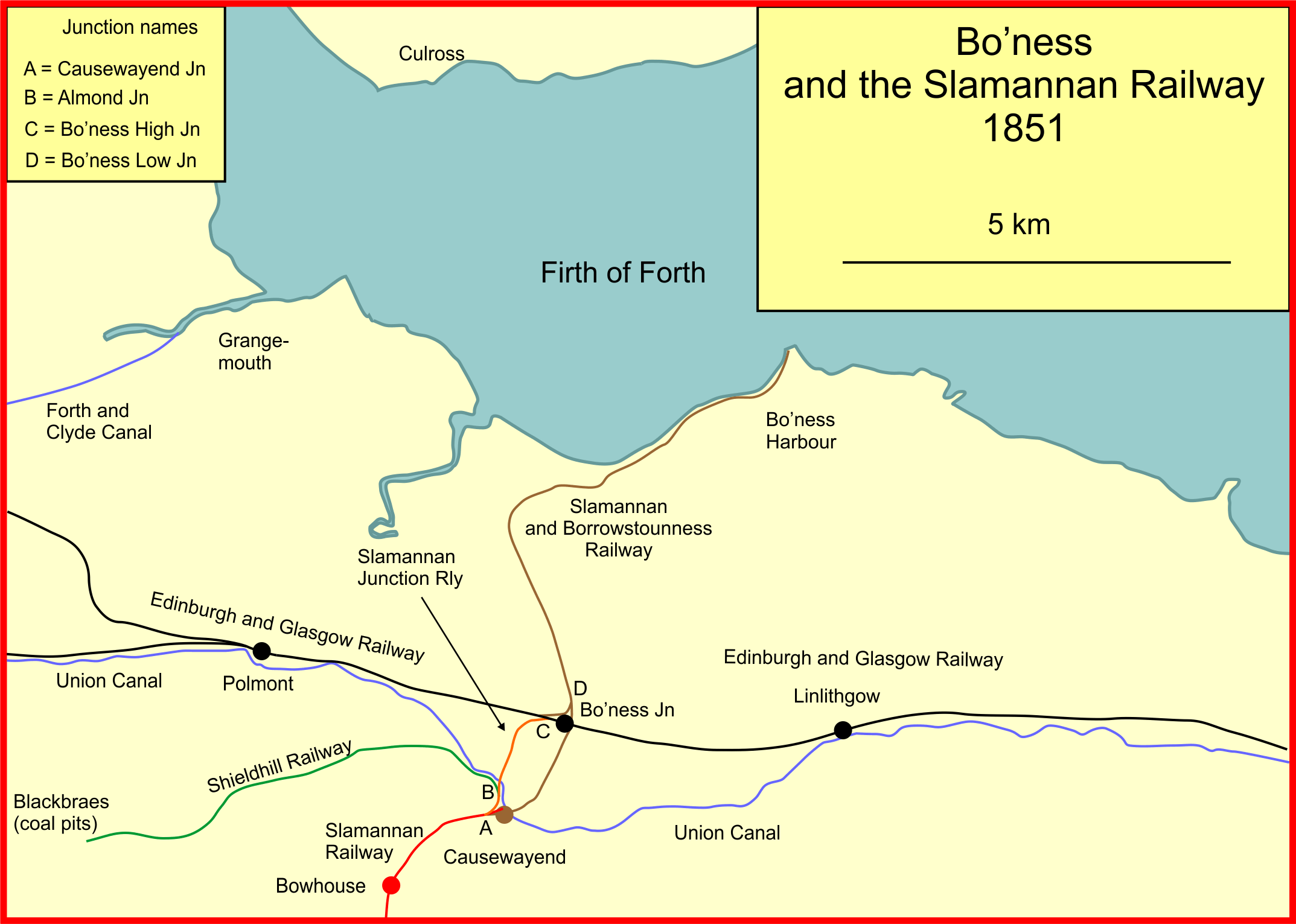 Railways in teh area of Bo'ness and the Slamannan Railway, Scotland